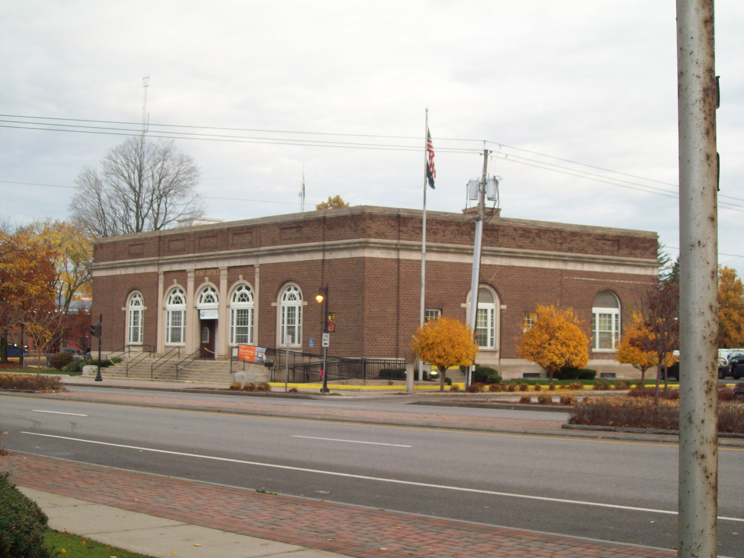 U.S. Post Office, Batavia NY, October 2009